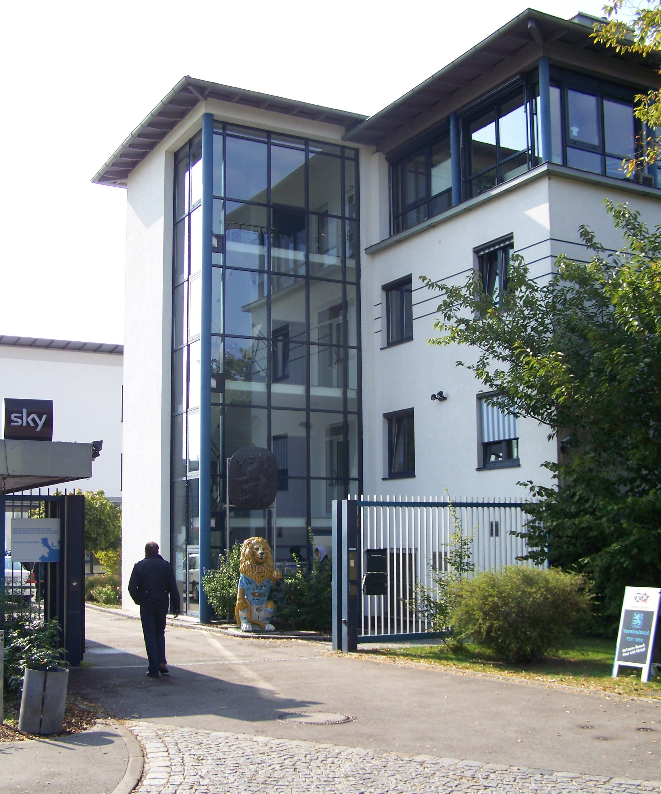 Office Building of TSV 1860 München